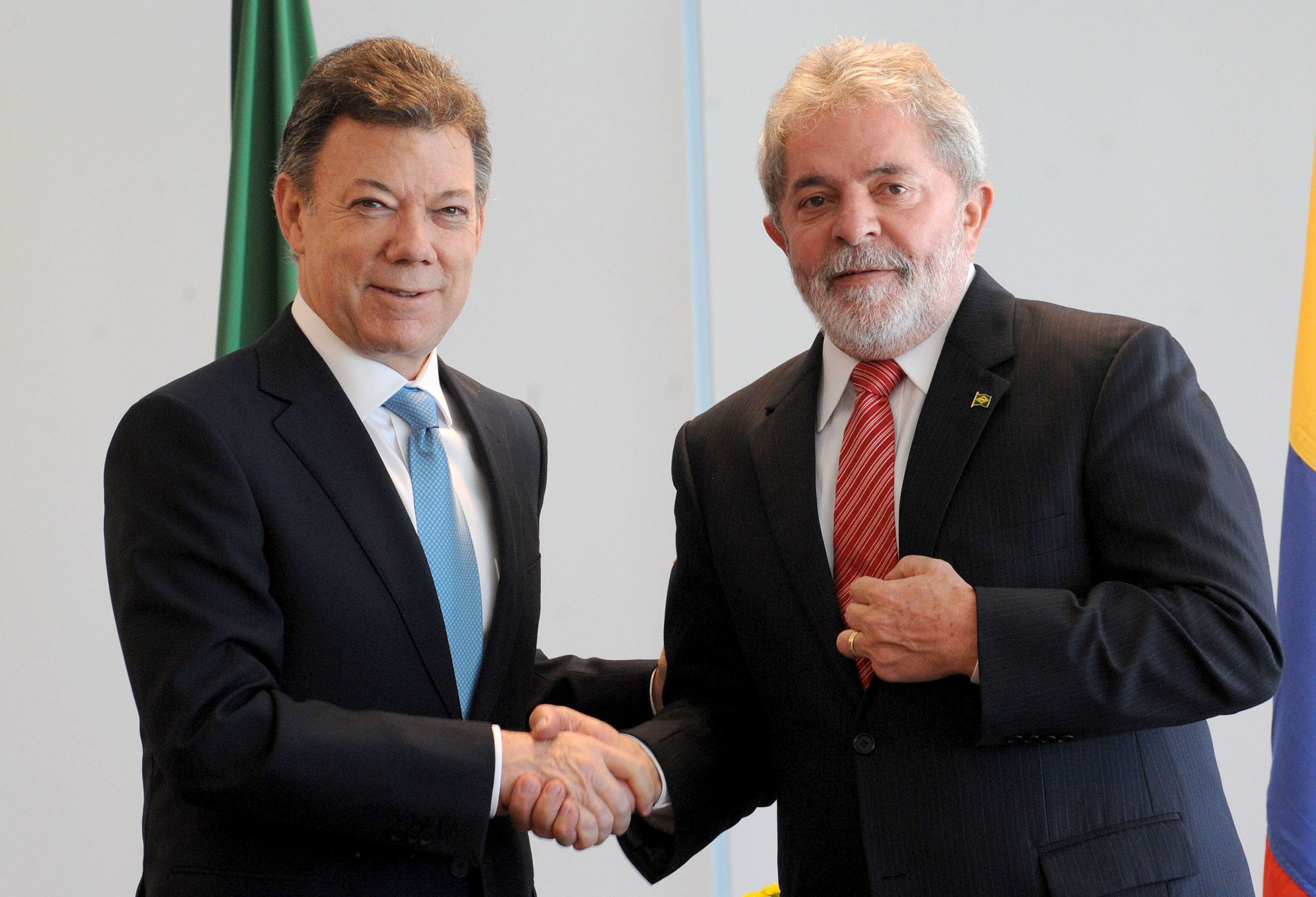 The president of Brazil Luiz Inacio Lula da Silva in company of the president of Colombia Juan Manuel Santos in the palace Planalto of Brasilia.